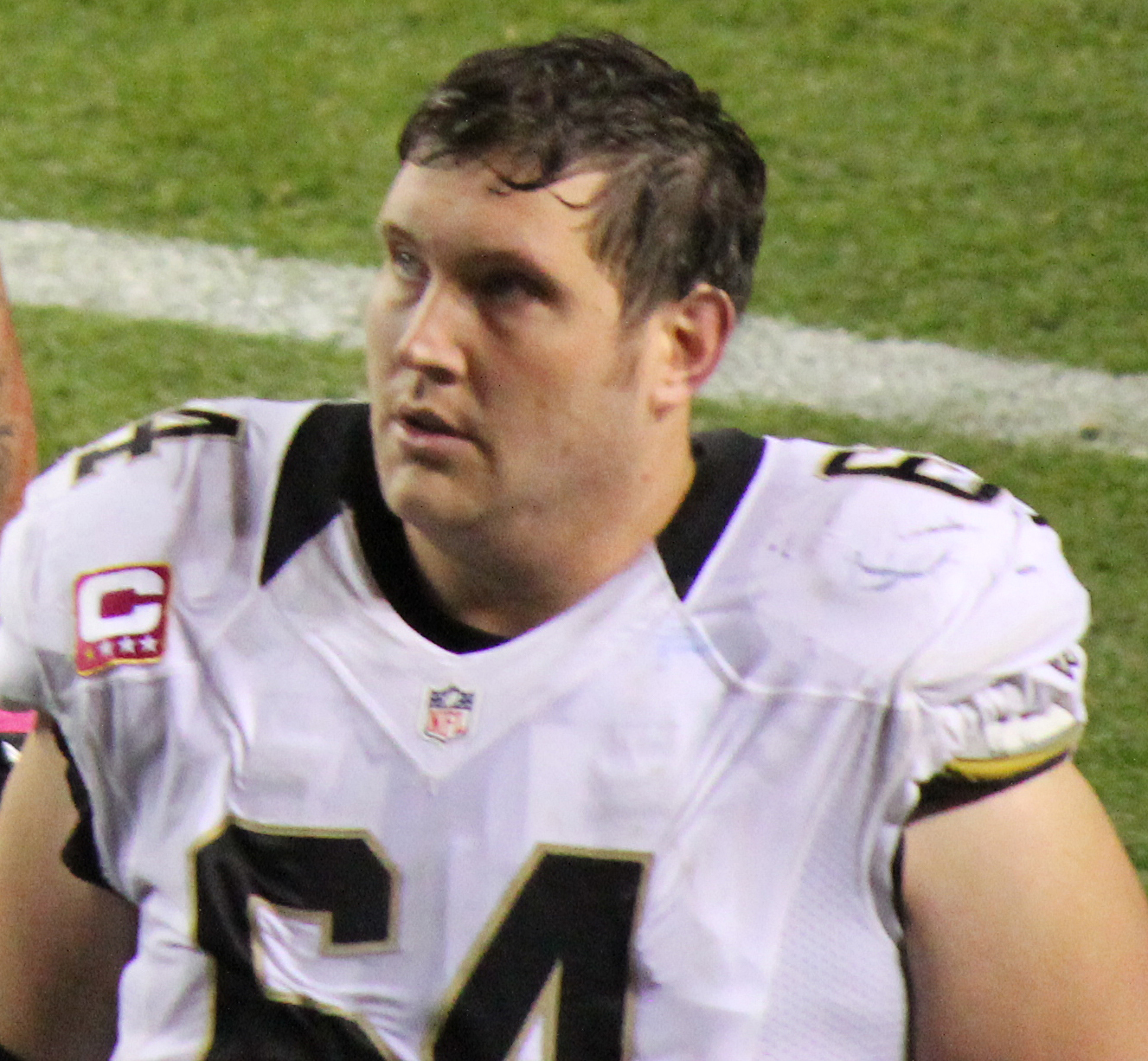 Zach Strief, a player on the National Football League.